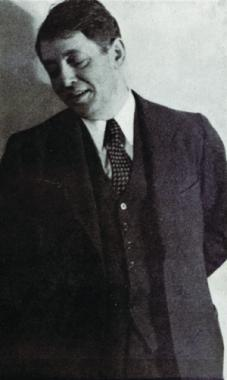 Zishe Landau (yiddisch poet, 1889-1937)